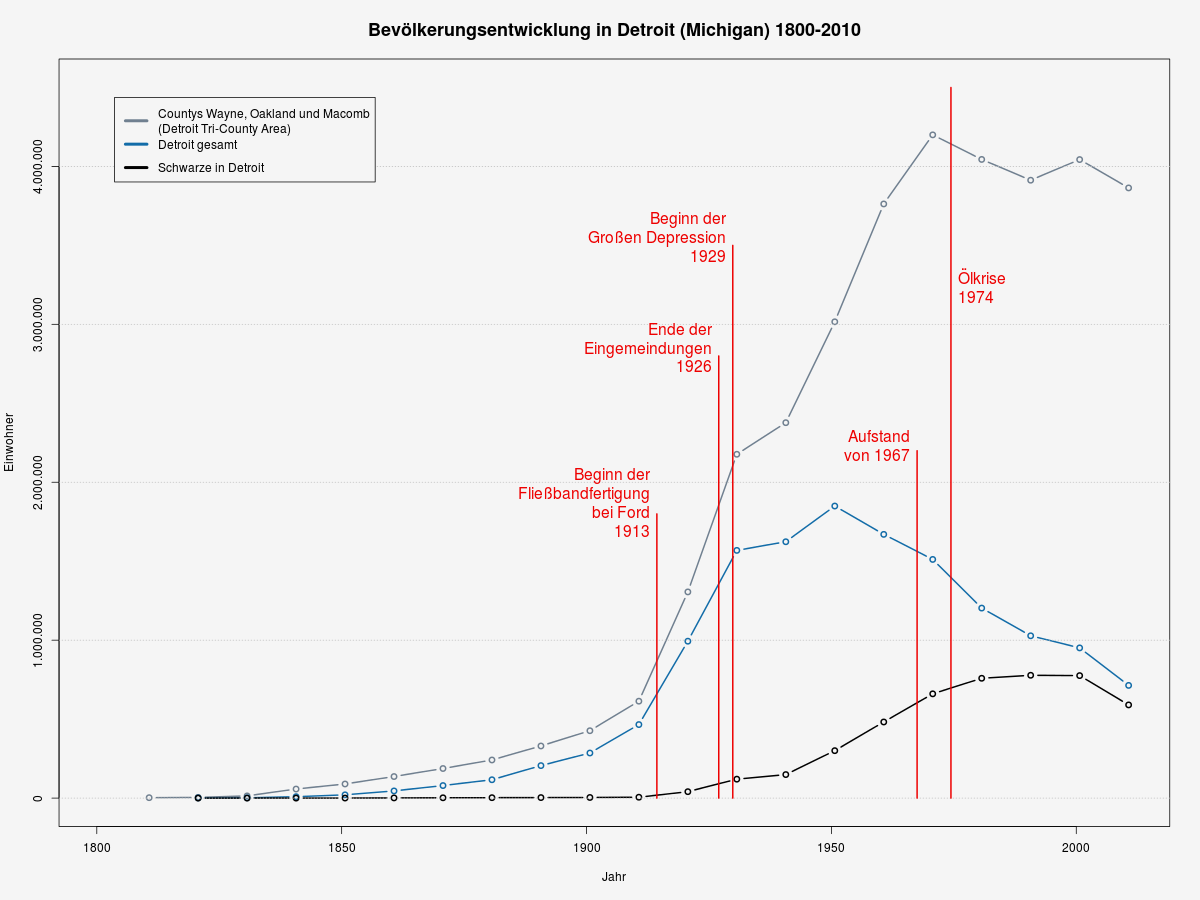 Population of Detroit, Michigan from 1810 to 2010. (Labels are in German.)